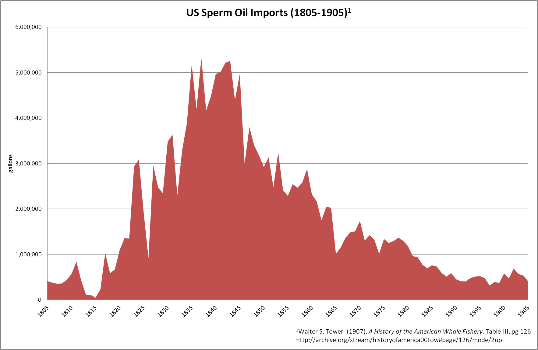 US imports of sperm oil between 1805 and 1905. Based on Table III on page 126 of A History of the American Whale Fishery by Walter S. Tower (